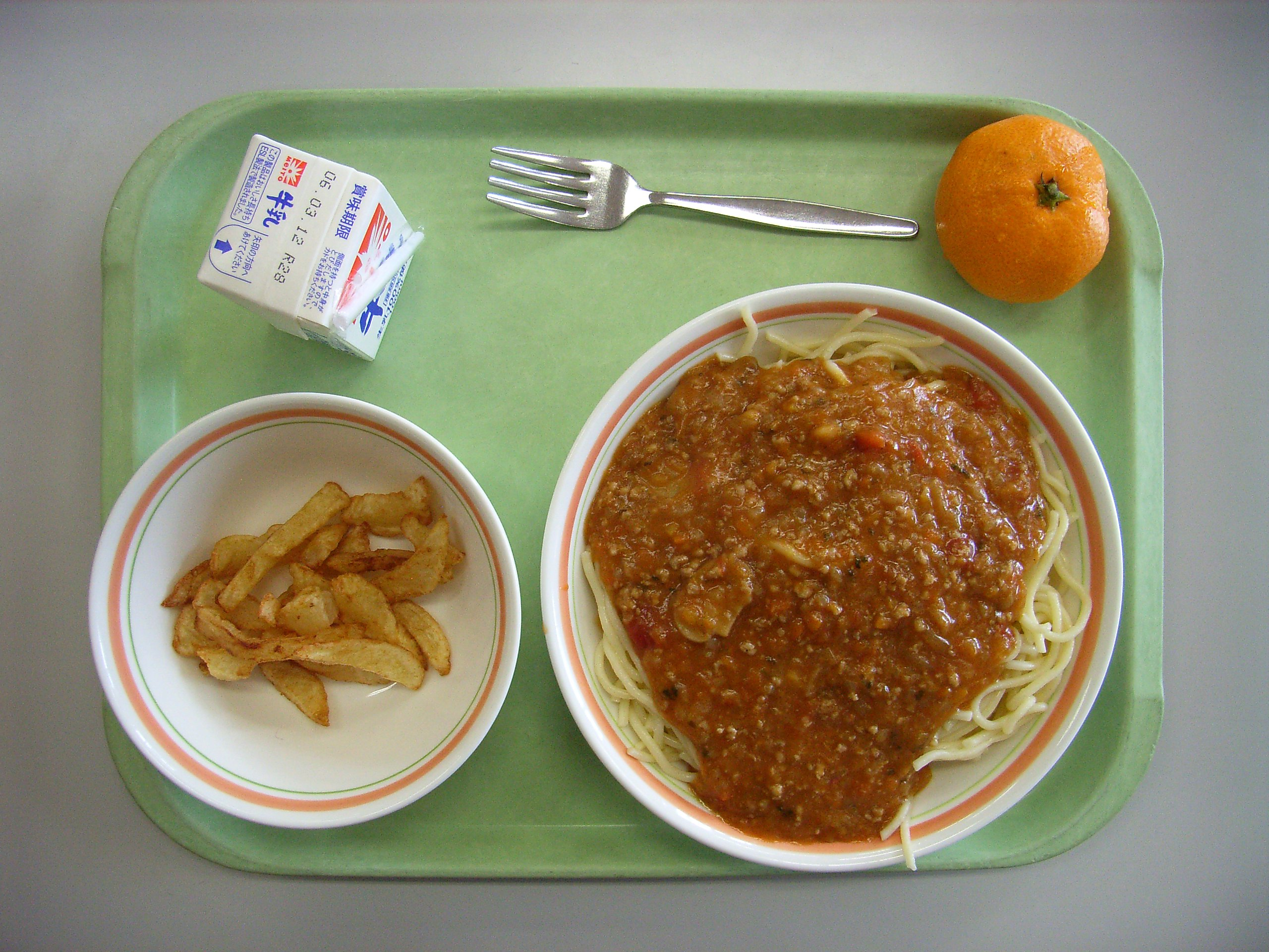 A Japanese elementary school lunch. Spaghetti, French Fries, Frozen Orage and Milk.School lunch